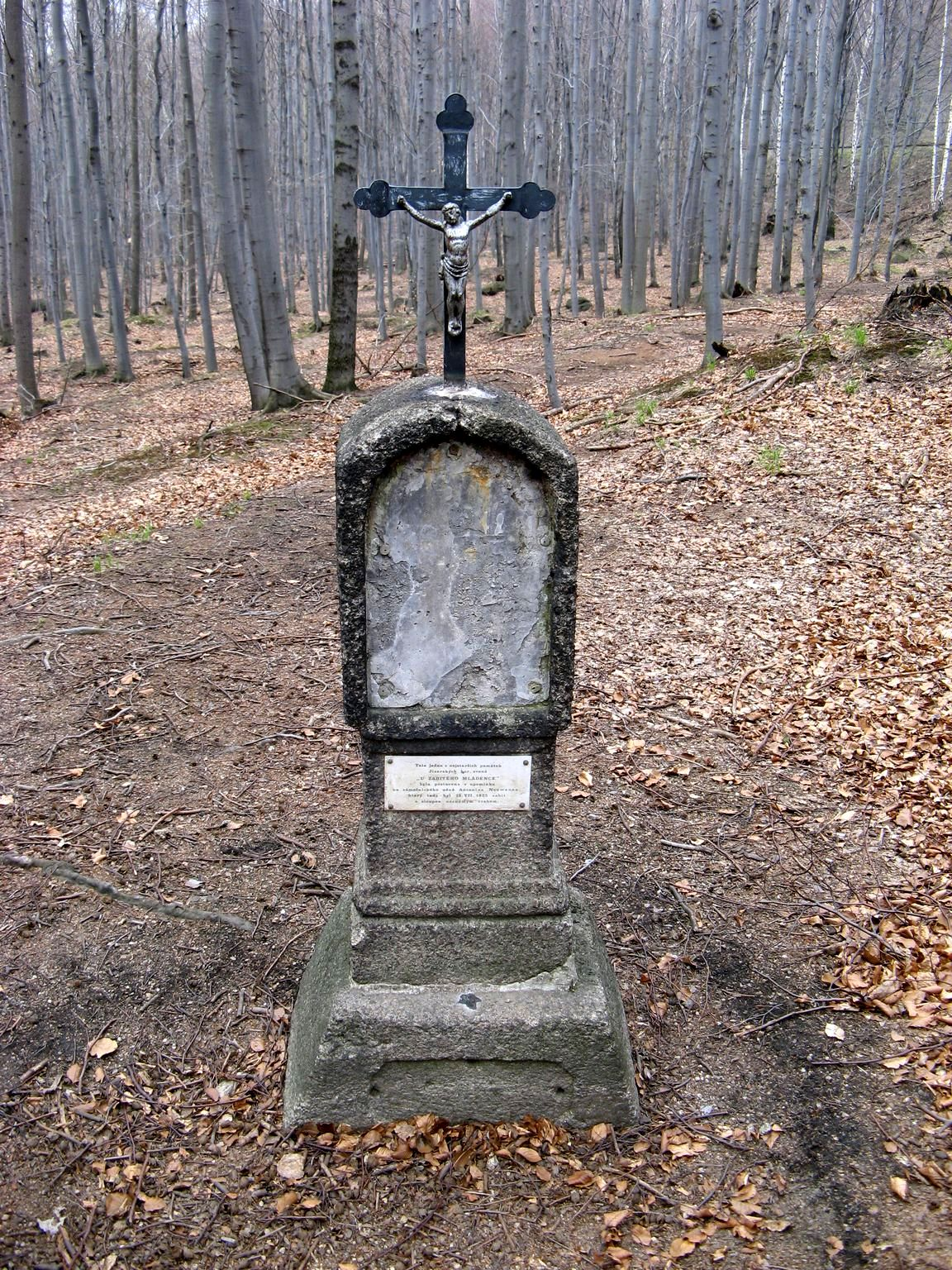 Memorial "U zabitého mládence", Jizera Mountains, Czech Republic